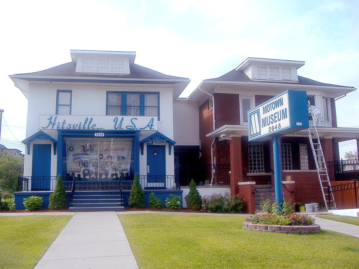 Photo of the Hitsville USA building in Detroit MI. Photo taken: Monday June 19th, 2006 by Chris Butcher Category:Images of Detroit, Michigan